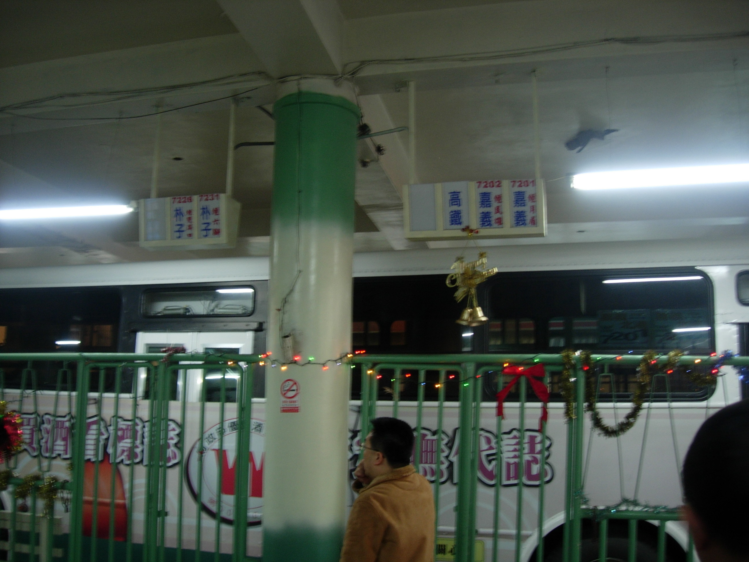 Chia-yi Bus Peikang Station Platform 1中文（台灣）: 嘉義客運北港站月台1。